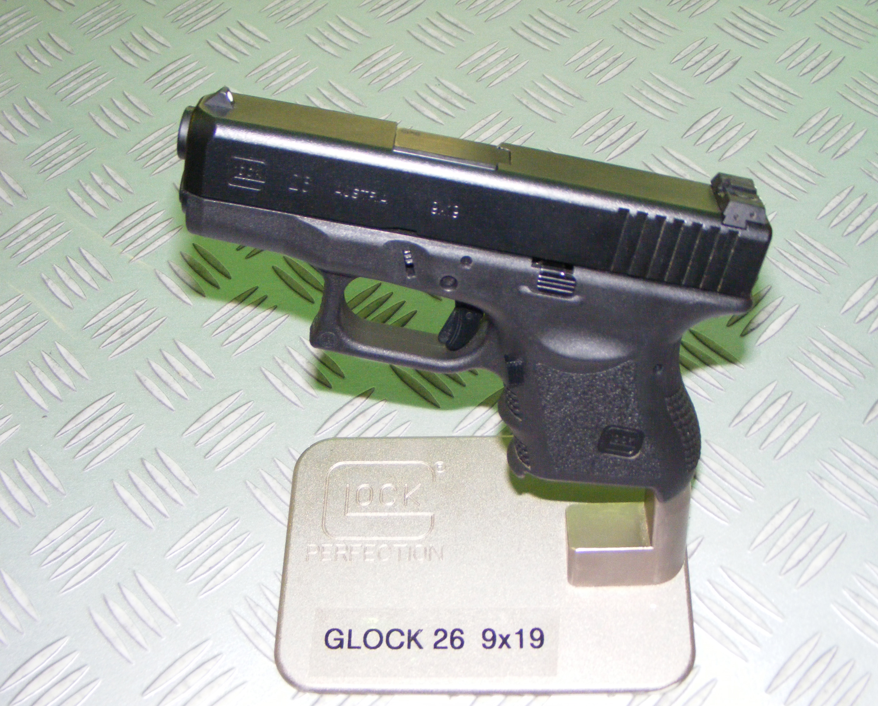 Glock 26